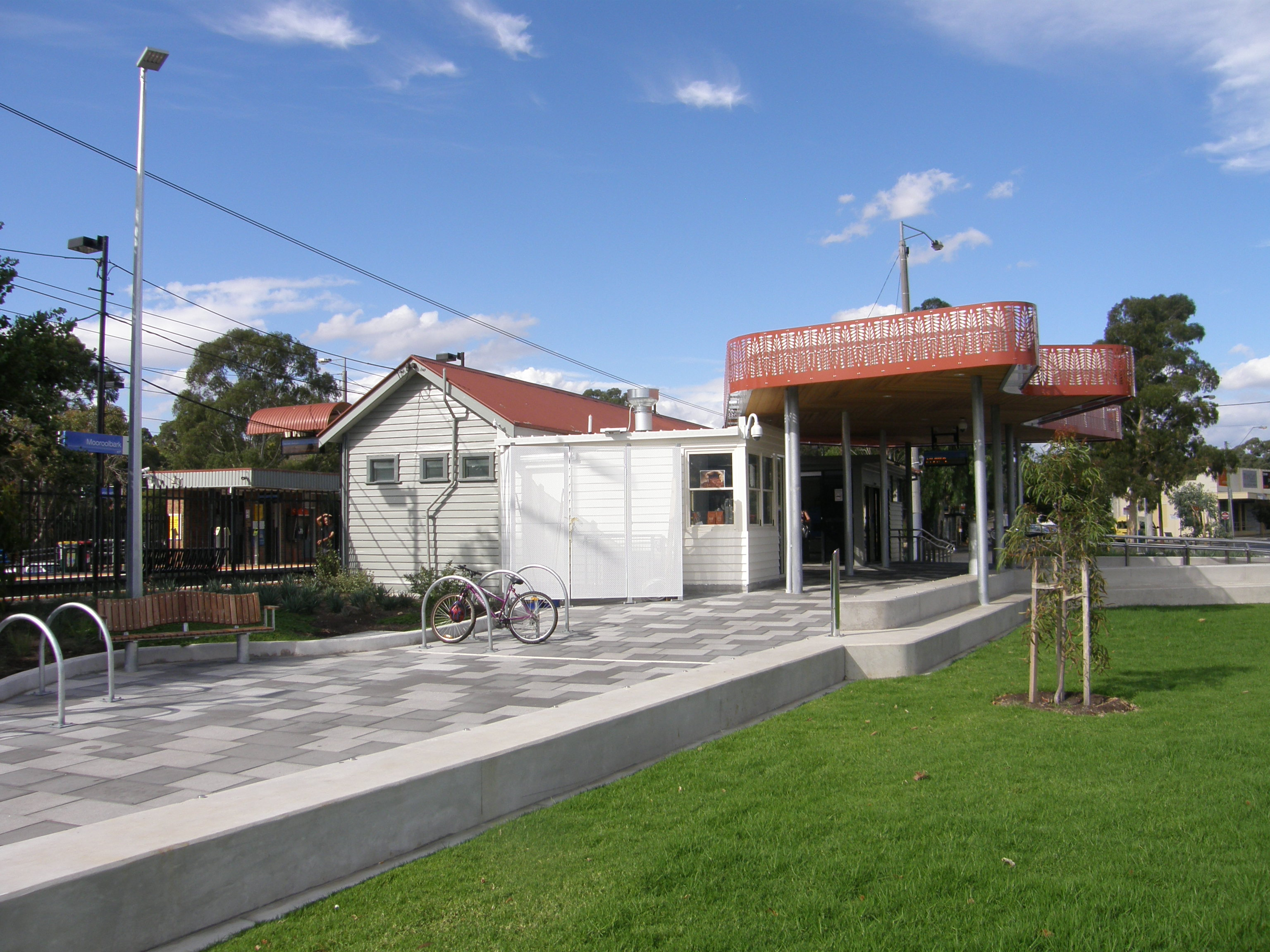 Photograph of Mooroolbark railway station, Victoria.